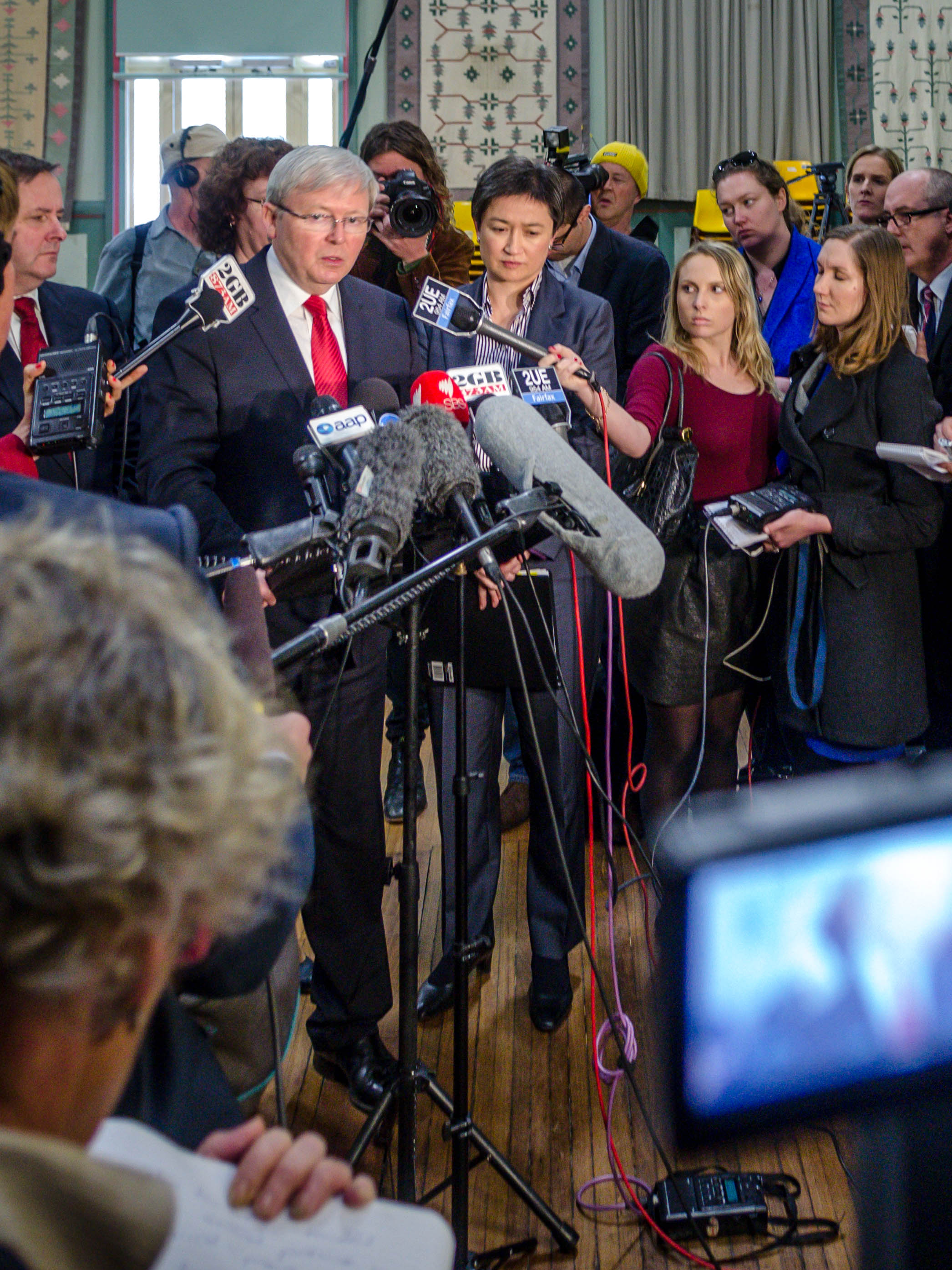 Kevin Rudd Press Conference in Balmain Town Hall